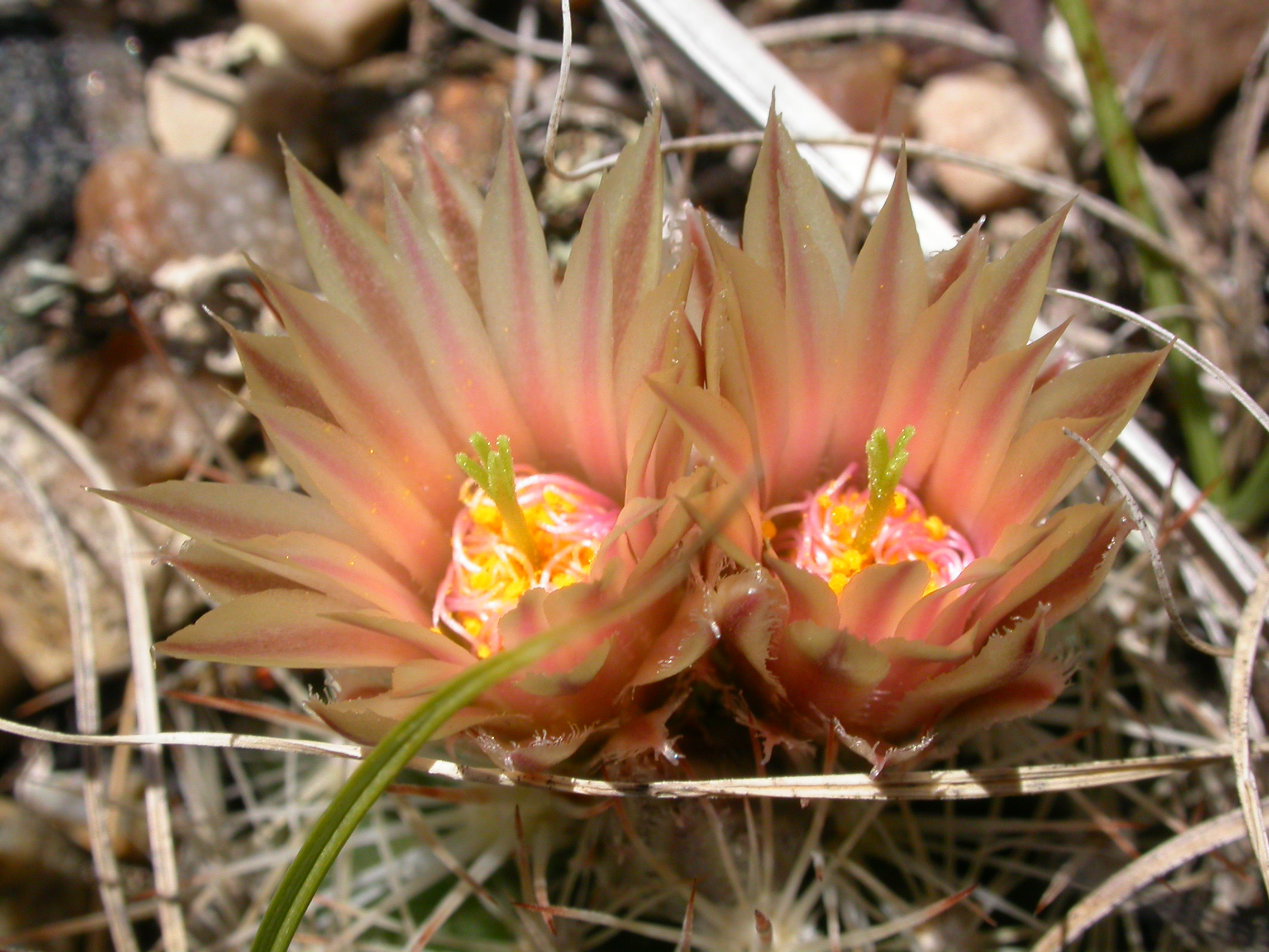 The early flowers with light pigmented petals and spine clusters that comprise only widely spready whitish spines readily distinguish this cactus from the commonly co-occuring Escobaria missouriensis subsp. missouriensis.